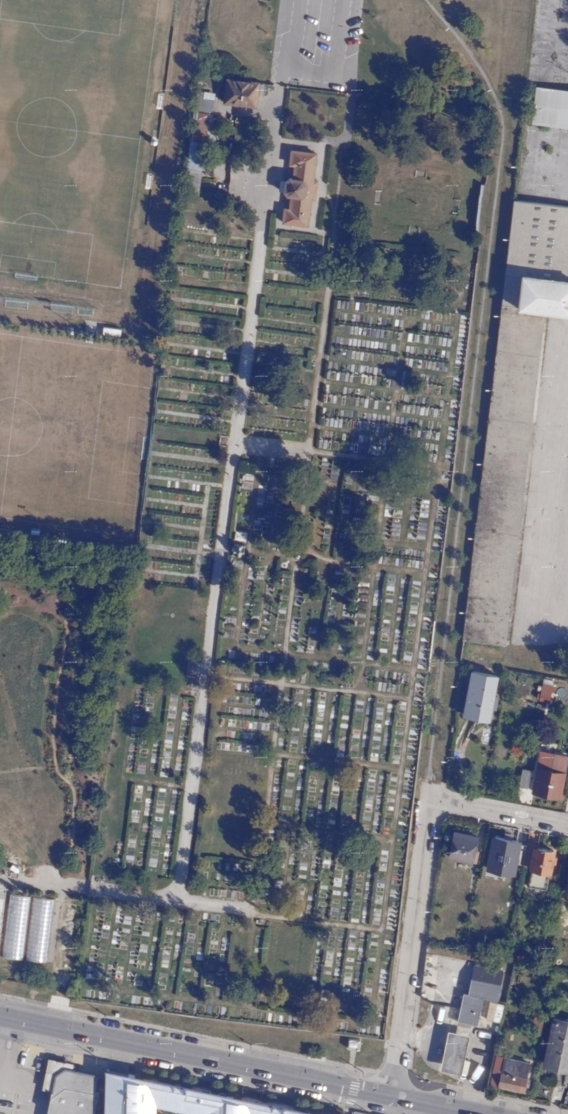 Orthophoto of the cemetery Liesing in Vienna, Austria